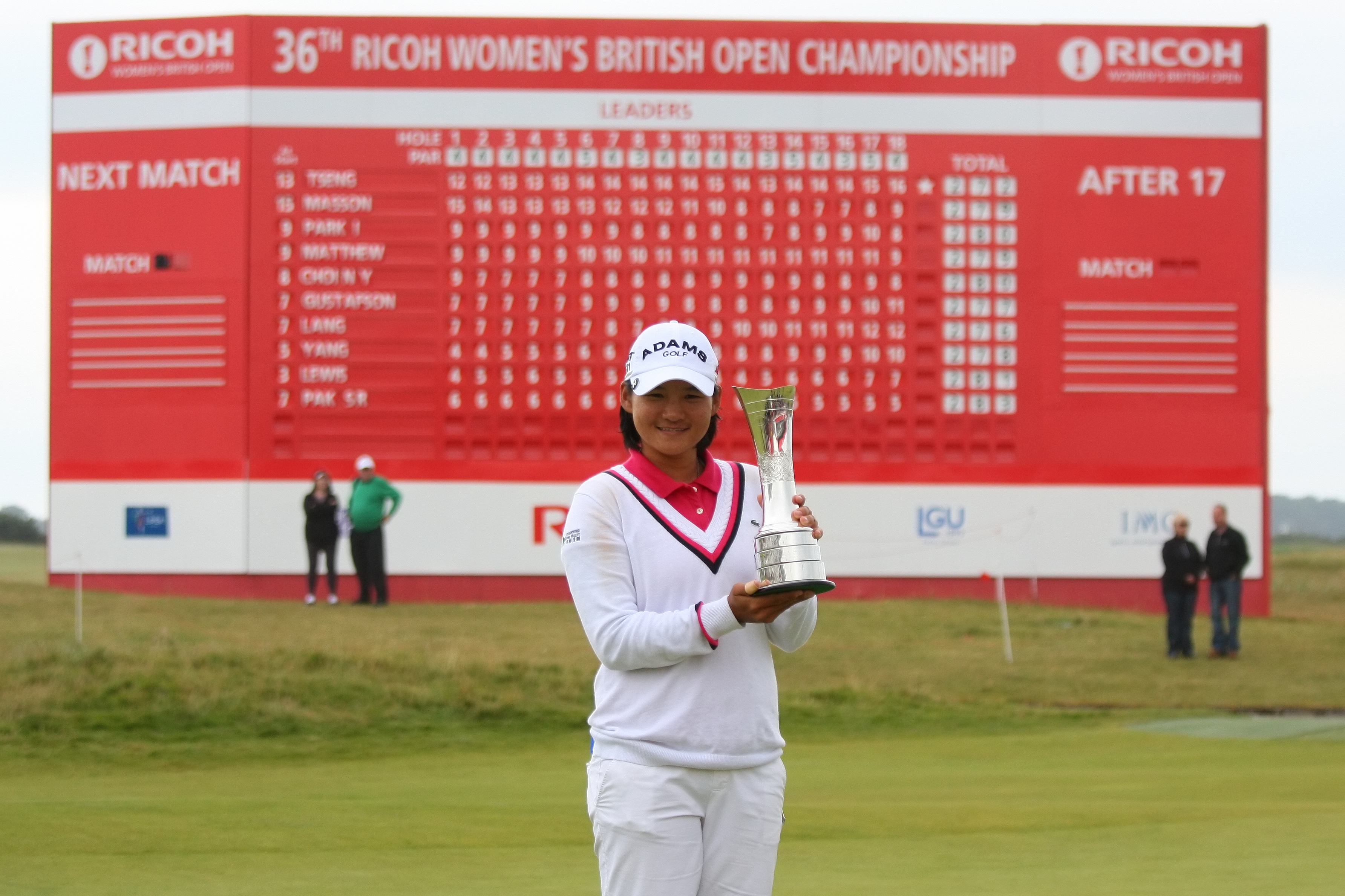 CARNOUSTIE, SCOTLAND - JULY 31: Yani Tseng of Taiwan poses with the winner's trophy after conclusion of the final round of the 2011 Ricoh Women's British Open at Carnoustie on July 31, 2011 in Carnoustie, Scotland. (Photo by Wojciech Migda)